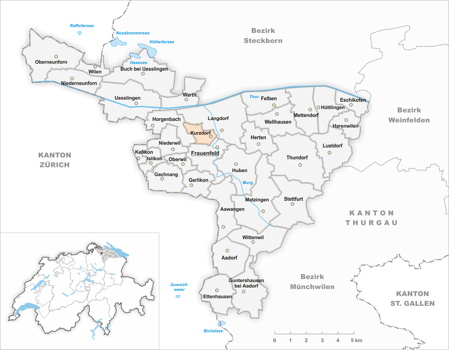 Municipality Kurzdorf